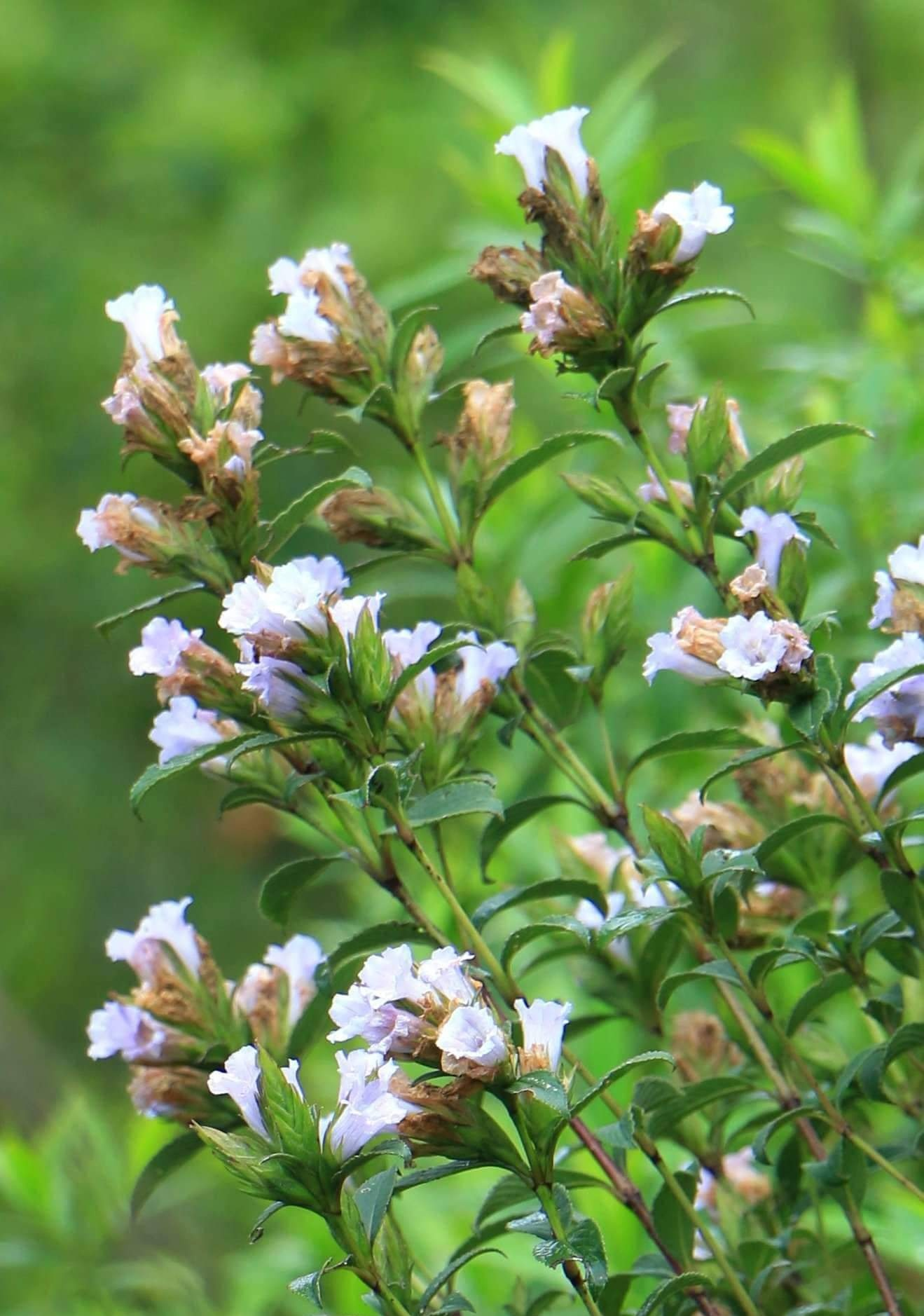 Strobilanthes kunthianus